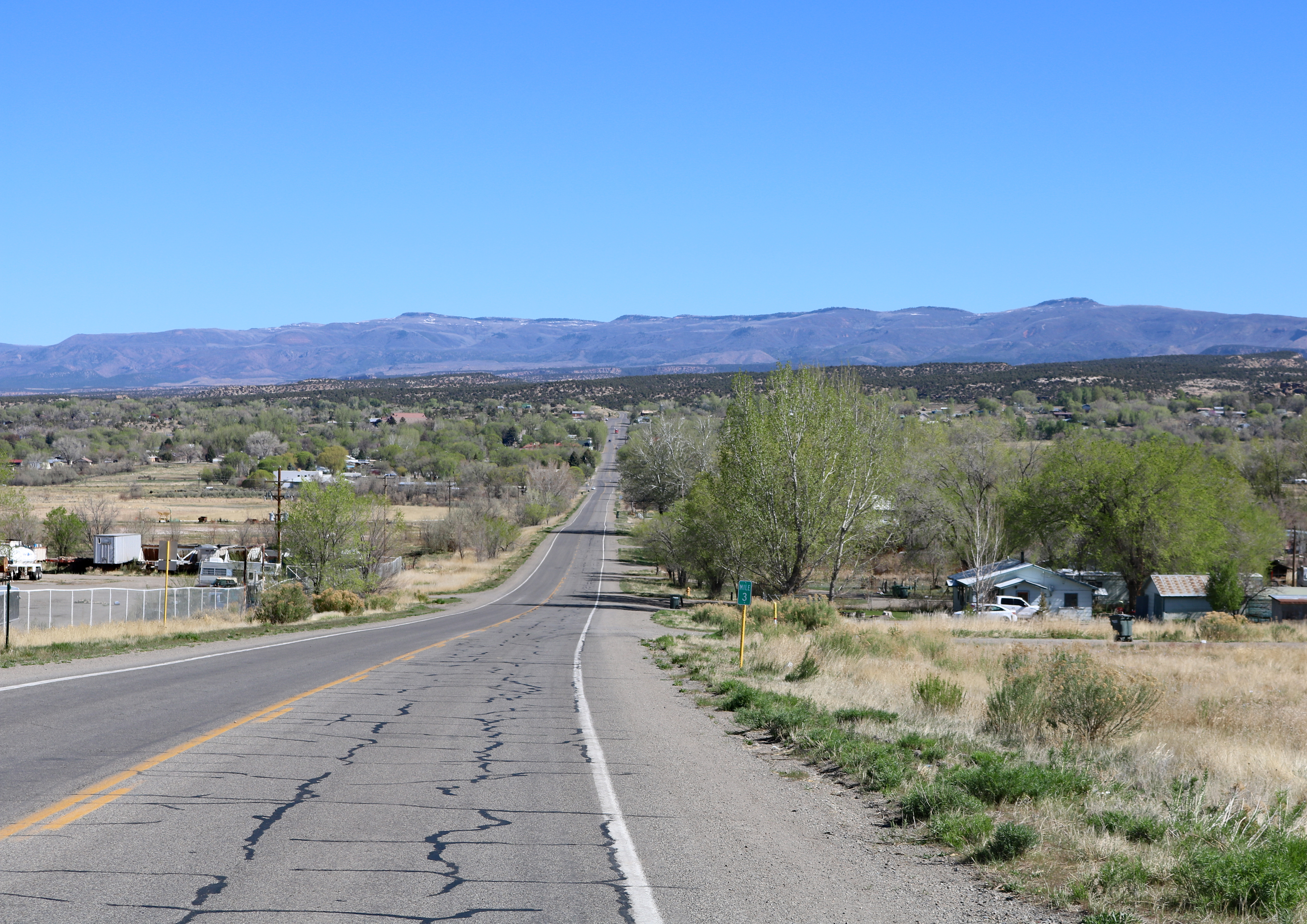 A view of the area in and around Nucla, Colorado in Montrose County. The view is to the north on Colorado State Highway 97 just south of Nucla proper. The Uncompahgre Plateau is visible.